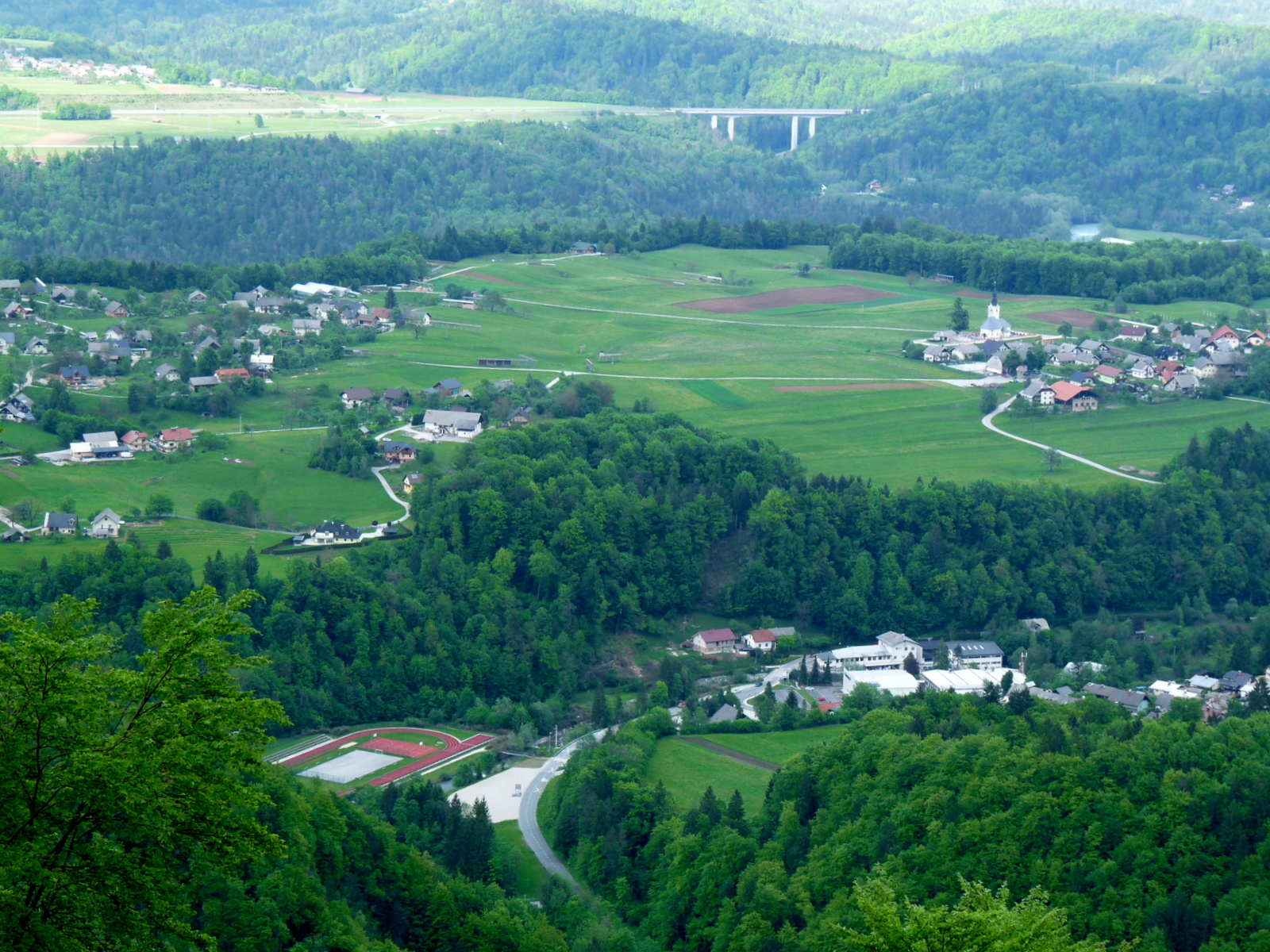 Lipnica, Zgornja in Srednja Dobrava